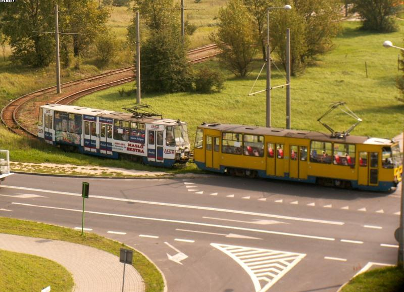 Konstal 805Nb tram in Grudziądz, Poland.